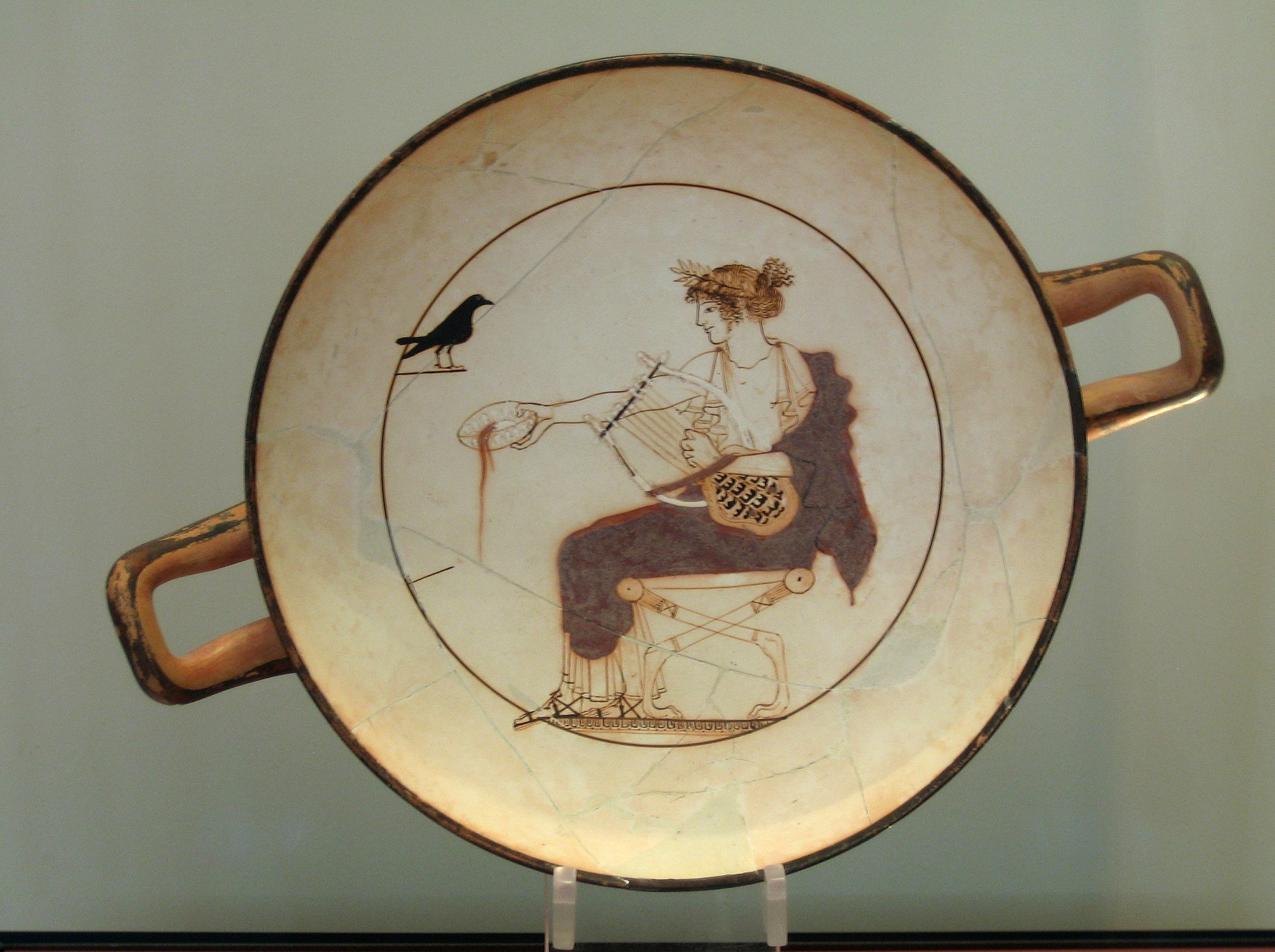 Apollo wearing a laurel or myrtle wreath, a white peplos and a red himation and sandals, seating on a lion-pawed diphros; he holds a kithara in his left hand and pours a libation with his right hand. Facing him, a black bird identified as a pigeon, a jackdaw, a crow (which may allude to his love affair with Coronis) or a raven (a mantic bird). Tondo of an Attic white-ground kylix attributed to the Pistoxenos Painter (or the Berlin Painter, or Onesimos). Diam. 18 cm (7 in.). From a tomb (probably that of a priest) in Delphi. Archaeological Museum of Delphi, Inv. 8140, room XII.